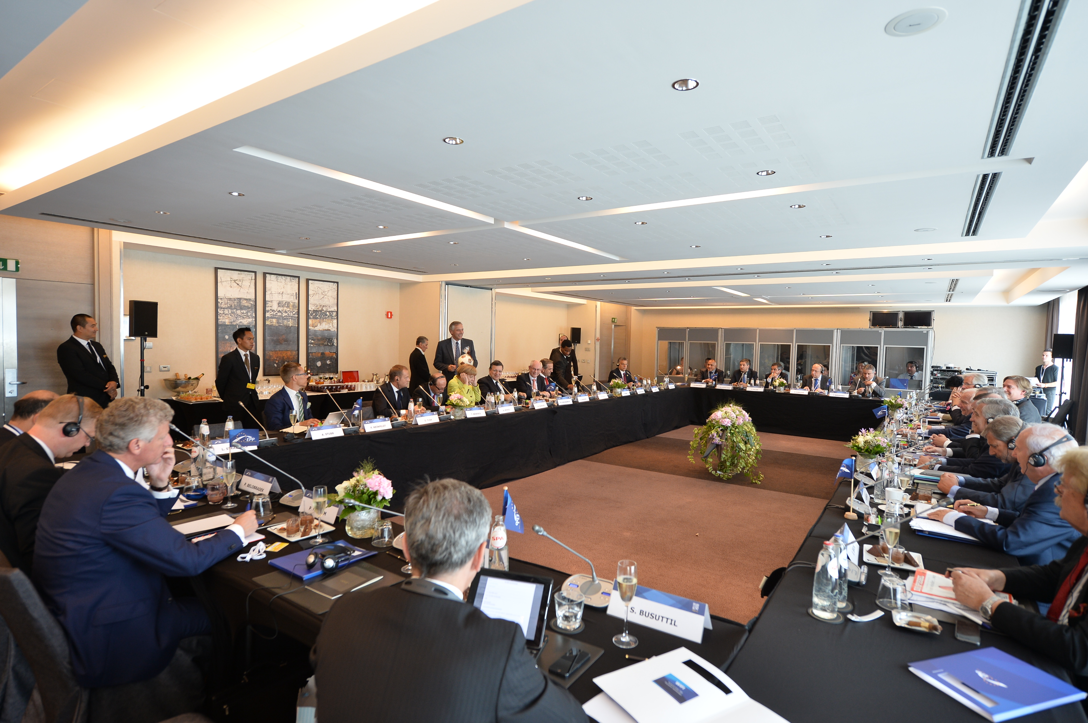 European People's Party Summit in Brussels in July 2014 in preparation of the European Council meeting